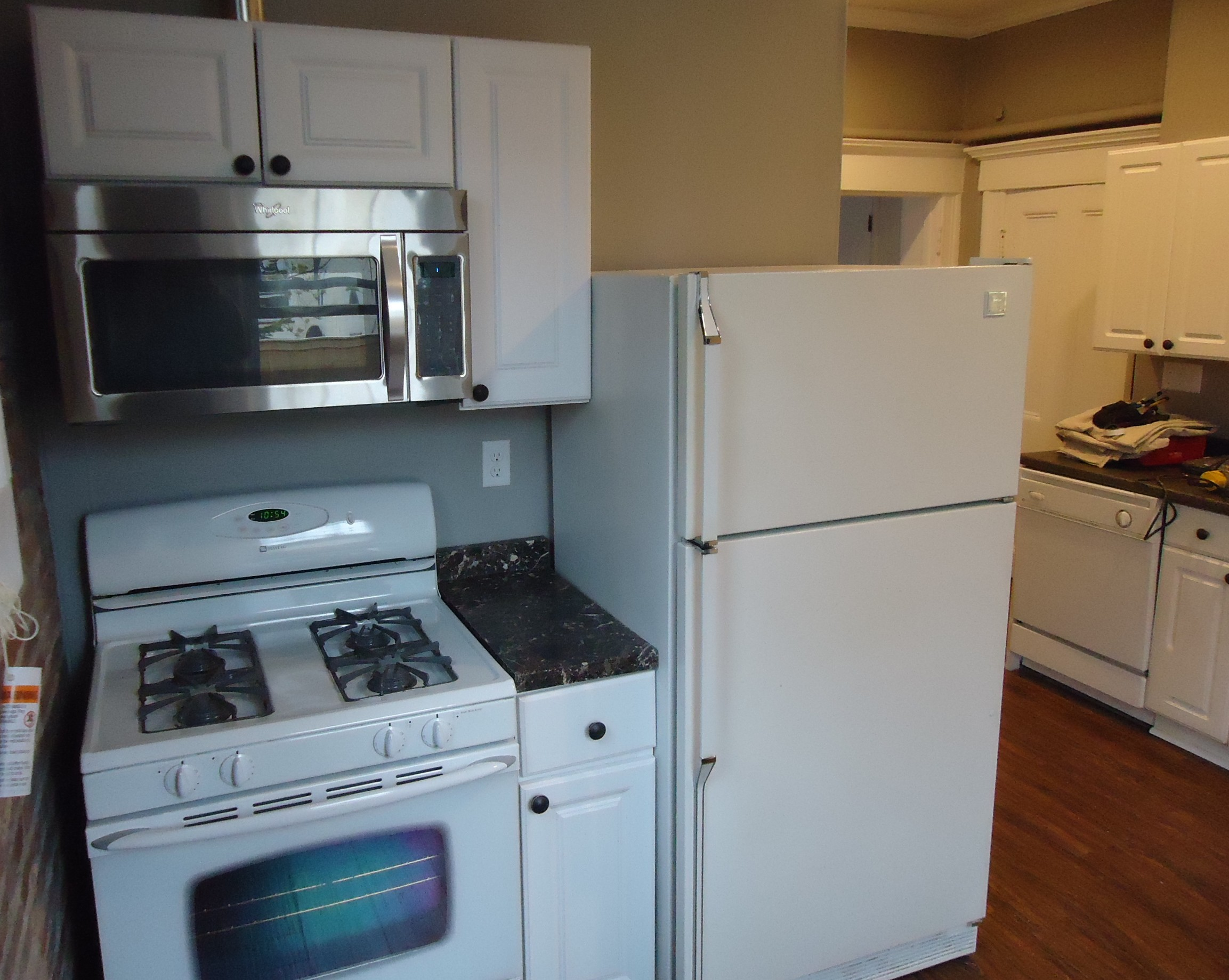 Kitchen renovation project completed. Here is a view of the stove, the new microwave and cabinets, the refrigerator, the new floor.